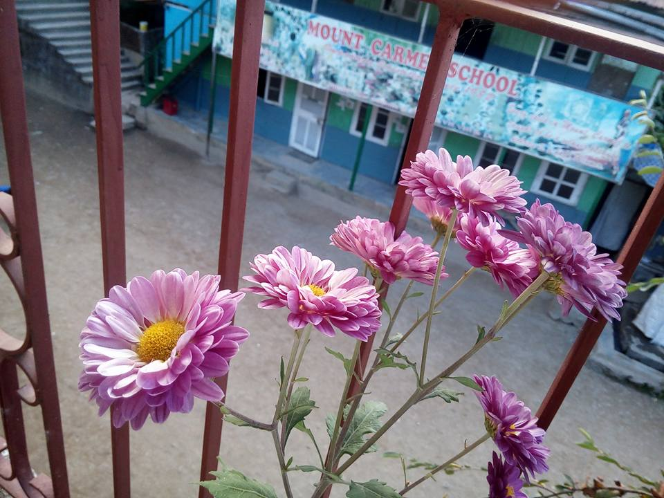 School block B